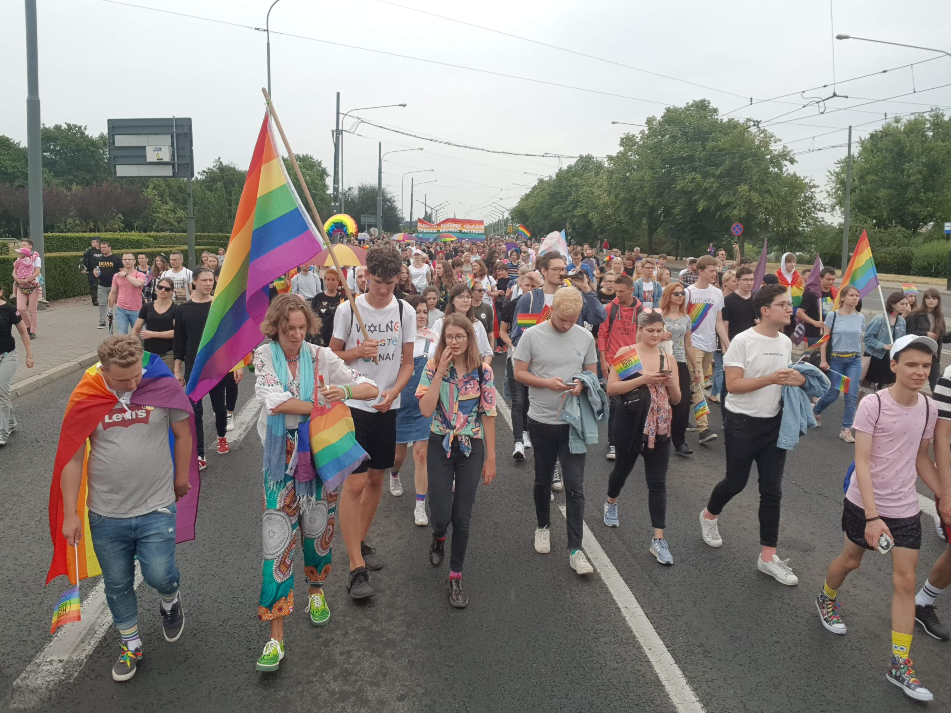 Poznan pride parade 2019Location: PolandEvent type: Pride paradeDate or year: 2019